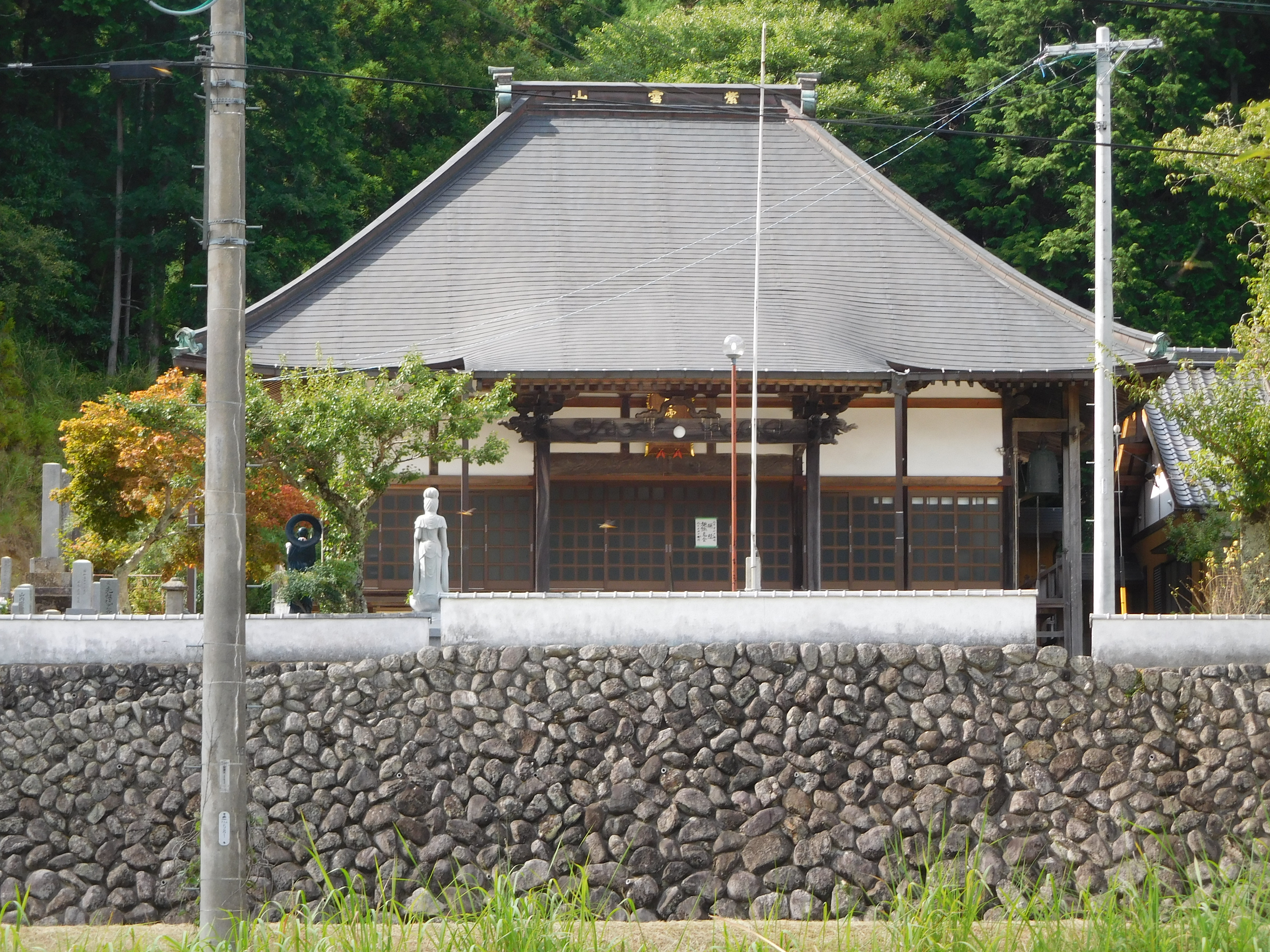 This is Nembutsu-ji temple in Tsu, Mie, Japan.